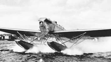 Heinkel HE 9a